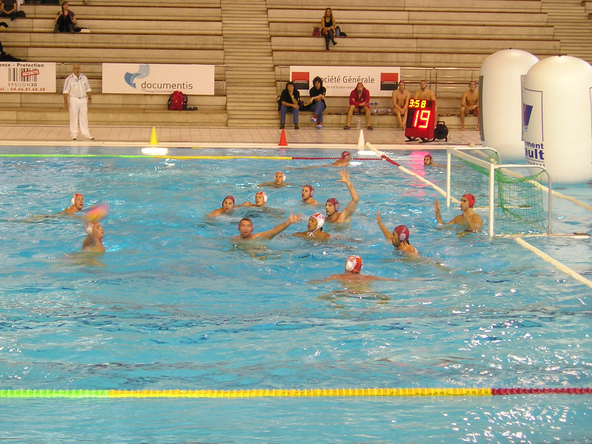 Montpellier, LEN Trophy first round, Montpellier vs. Cattaro. The Montpellier Water-Polo on the offensive (white and orange hat): Mathieu Peysson (#7) at the ball and looking for a solution (shoot or pass). Between three defenders, Andrés Aguilar (#2) is attentive to a pass to surprise Cattaro goal keeper Gojko Pjetlović (#1).